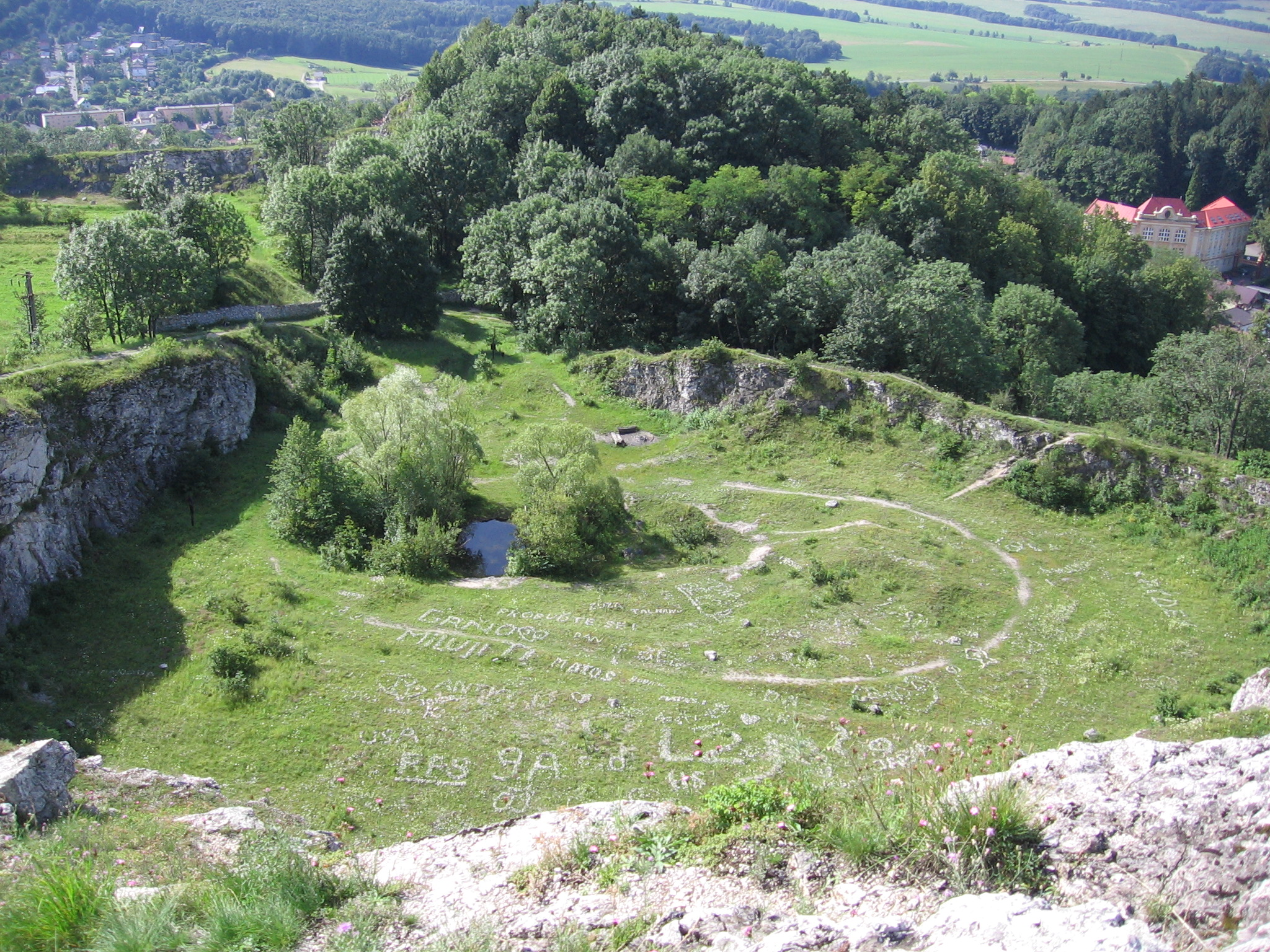 Kamenárka (Natural monument), Štramberk, Czech Republic